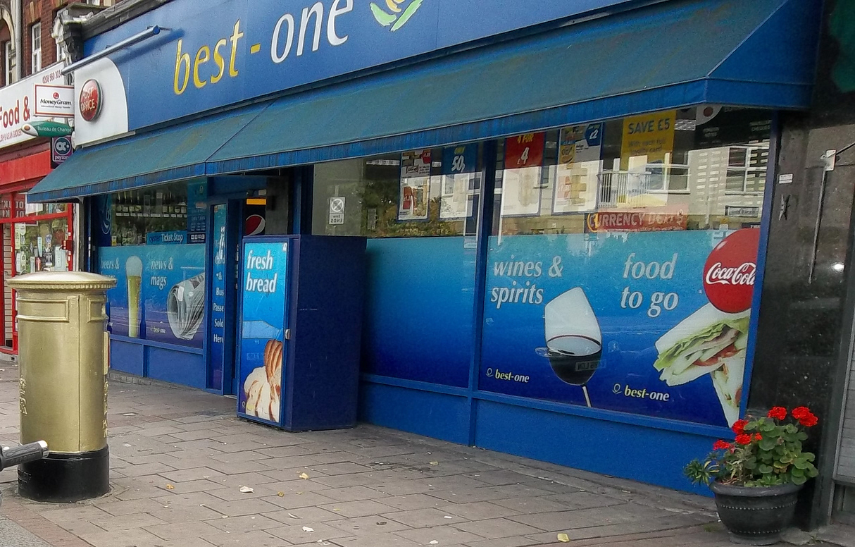 Isleworth, Middx